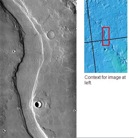 Hrad Vallis in Cebrenia. Location is 35.2 degrees north latitude and 219.3 degrees west longitude. Picture taken with Mars Odyssey's THEMIS. Photo credit NASA/JPL/ASU.